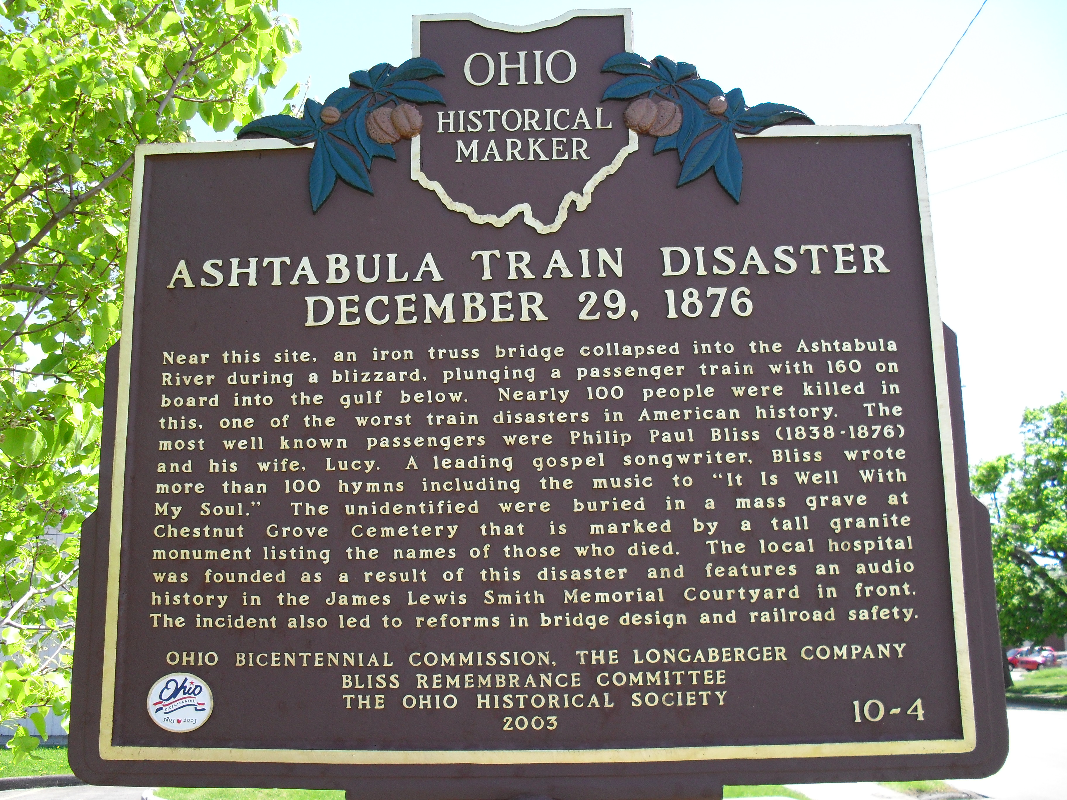 The Ohio Historical Marker for the Ashtabula Train Disaster.